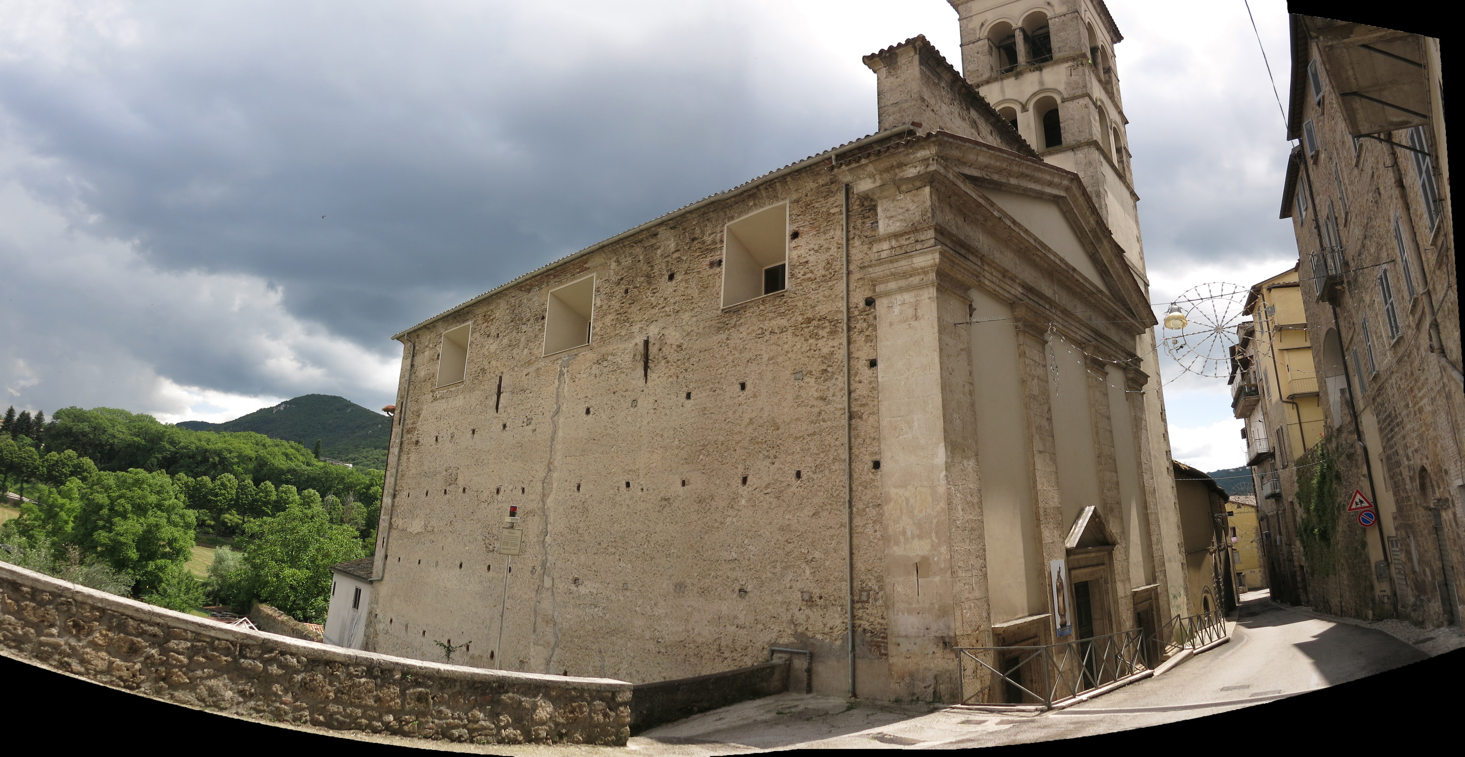 Exterior of St. Clare church - Rieti, Lazio, Italy